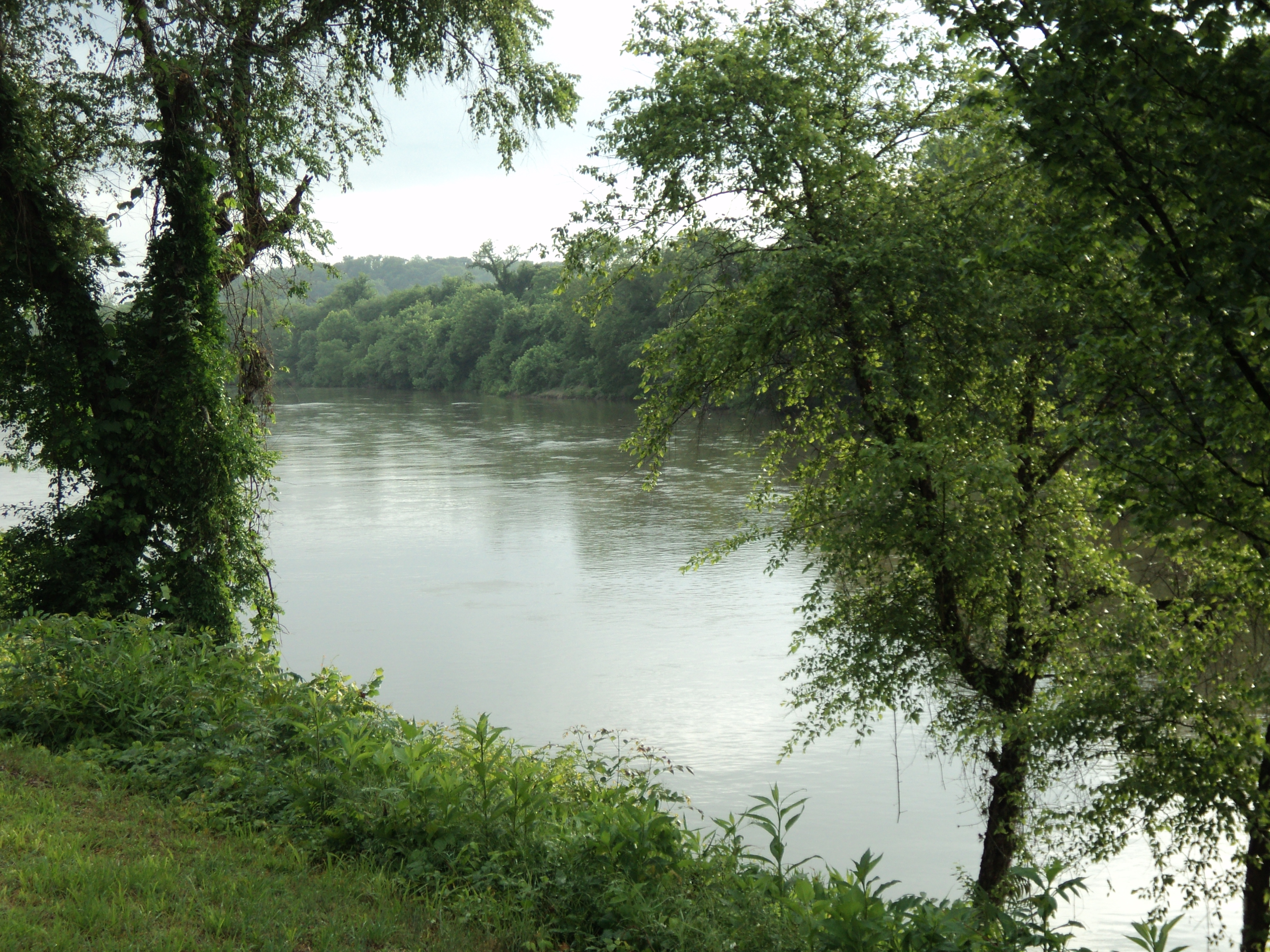 View of the Dan River in Danville, Virginia.